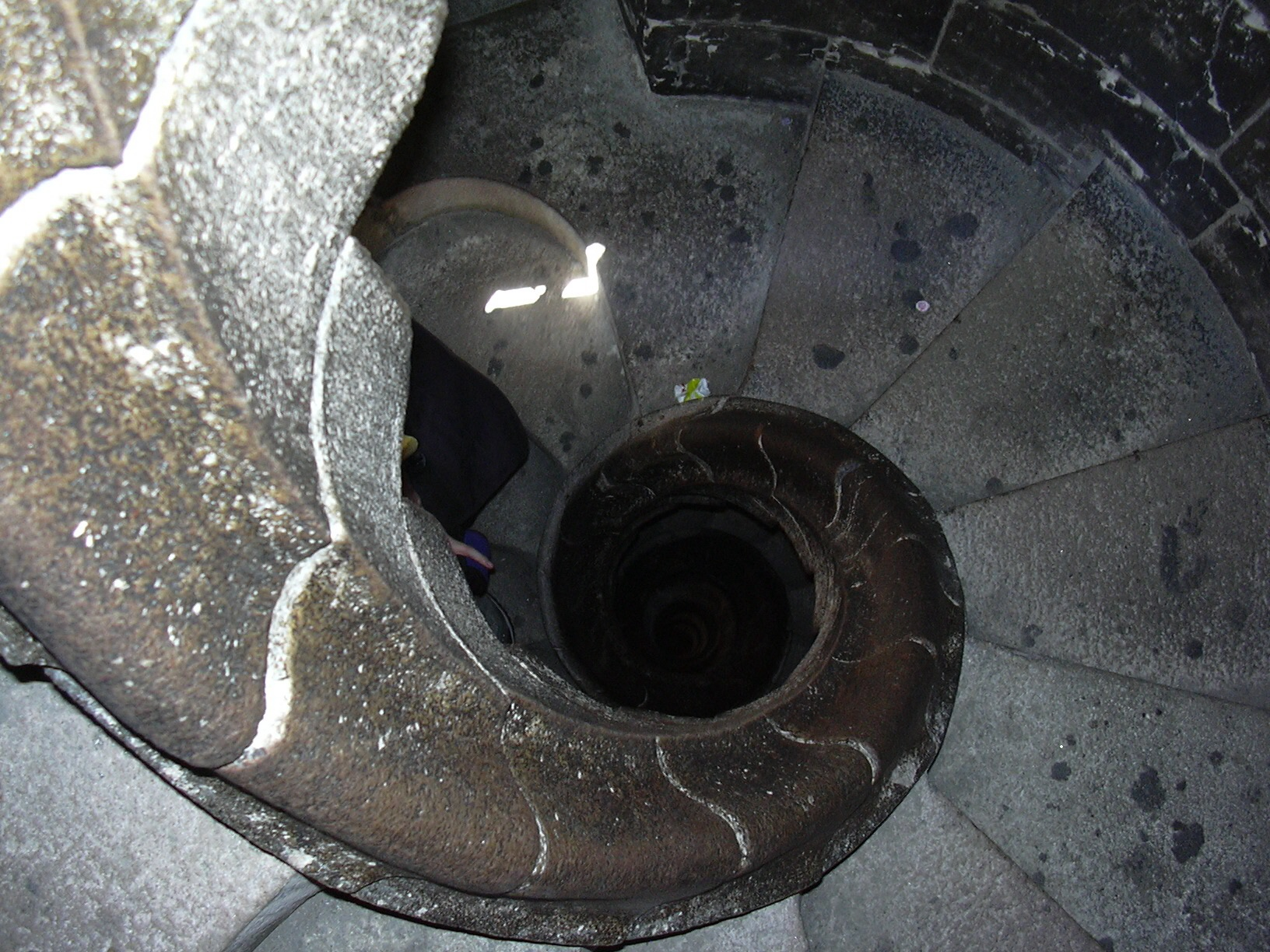 Shot downwards of the staircase in Sagrada Familia, Barcelona. spiral shaped like a shell.